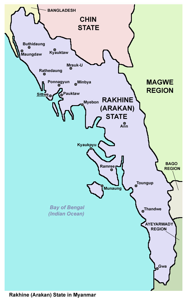 Map of the Rakhine (Arakan) State in Myanmar.